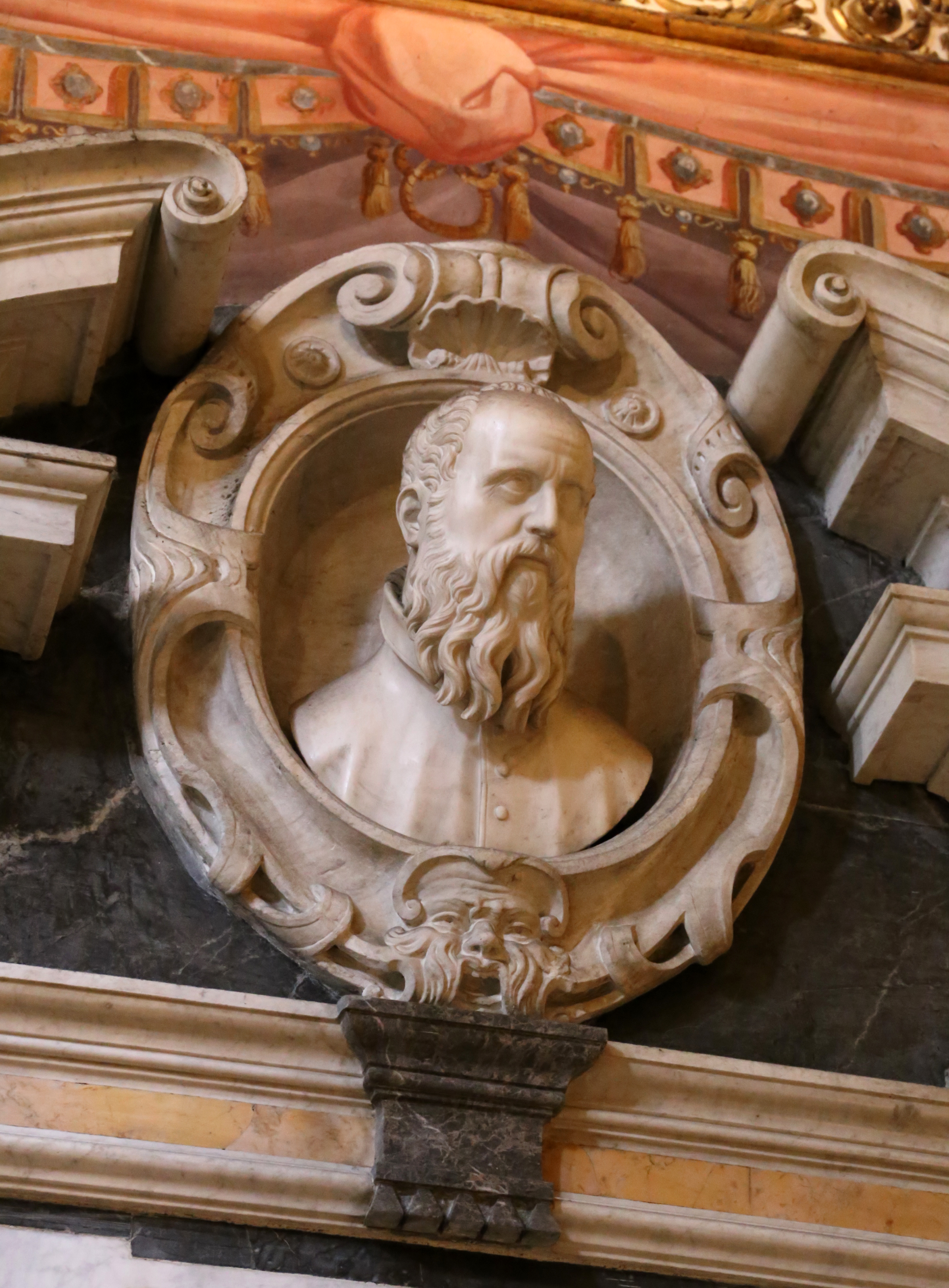 Santa Maria del Popolo (Rome) - Cappella Cerasi